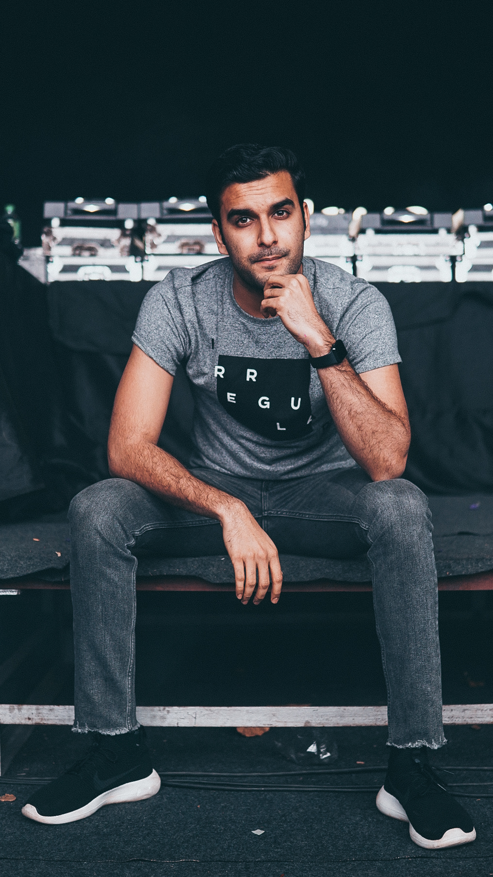 This is a picture of Anish Sood captured by me during his performance at BIT Ranchi